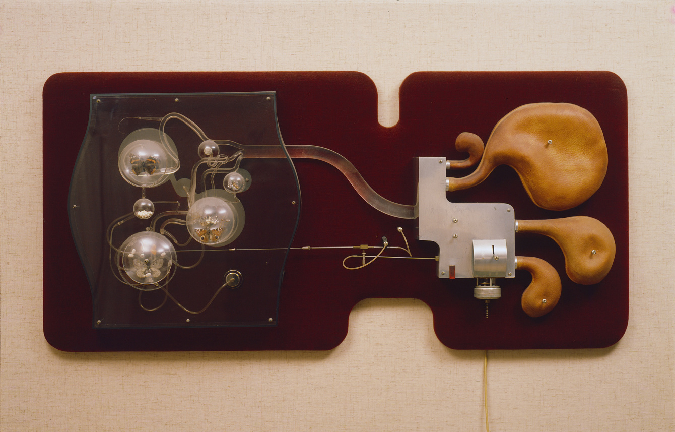 kombinovaná technika, r. 1973 až 1976, v. 59 cm